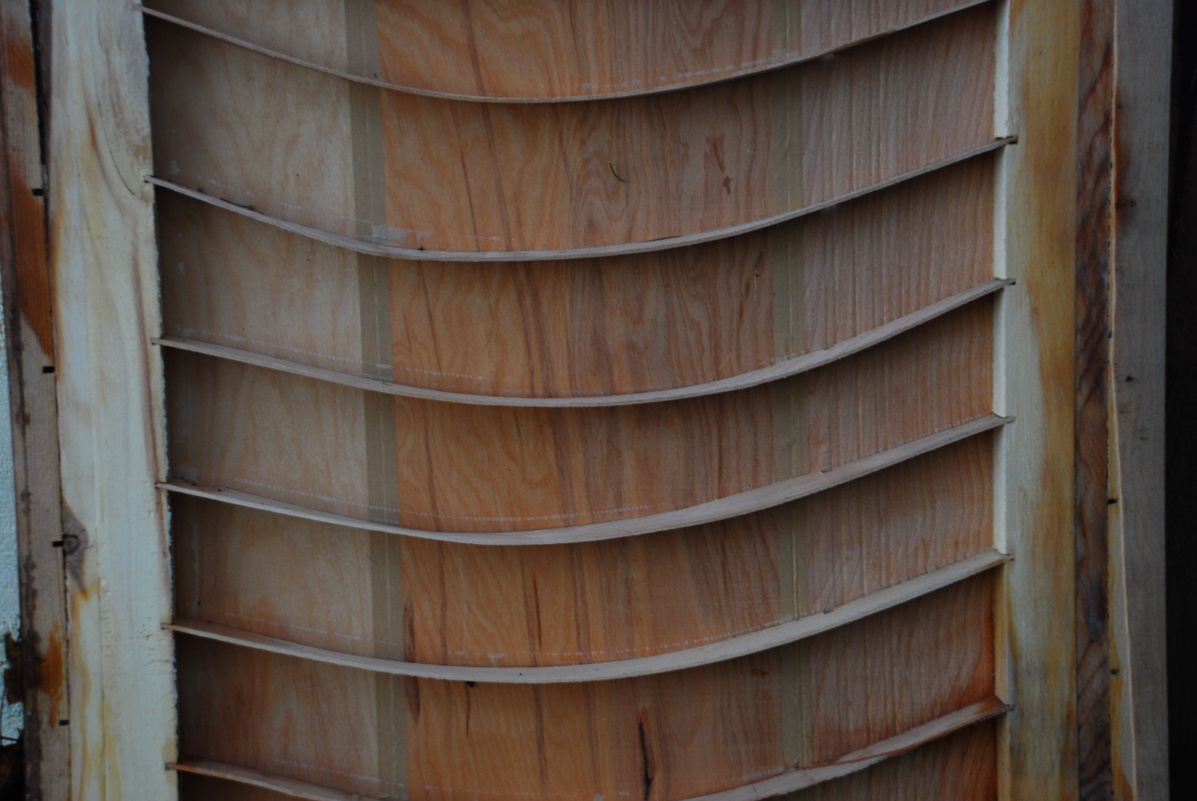 A hollow door with one face removed.